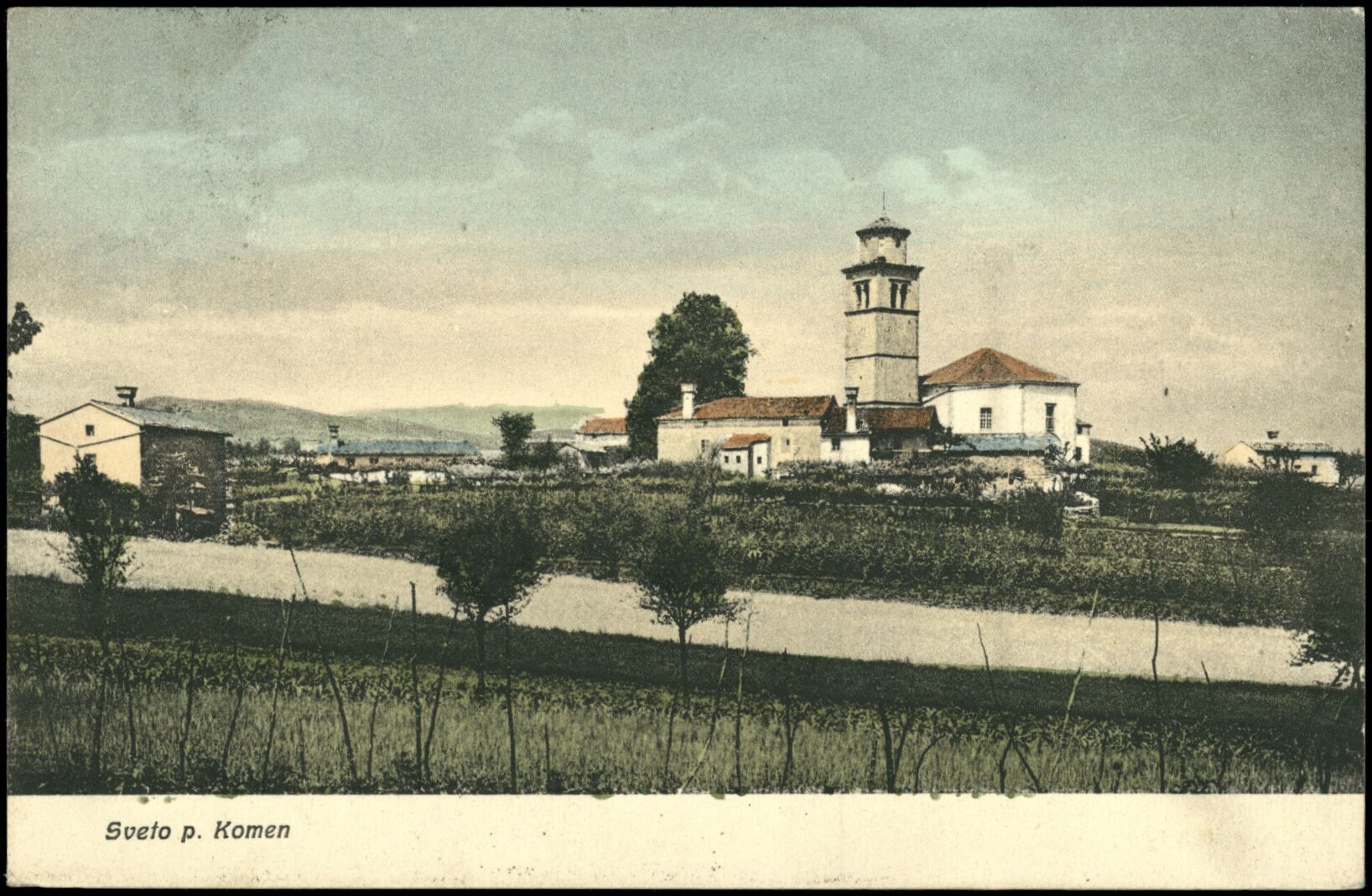 Postcard of Sveto.